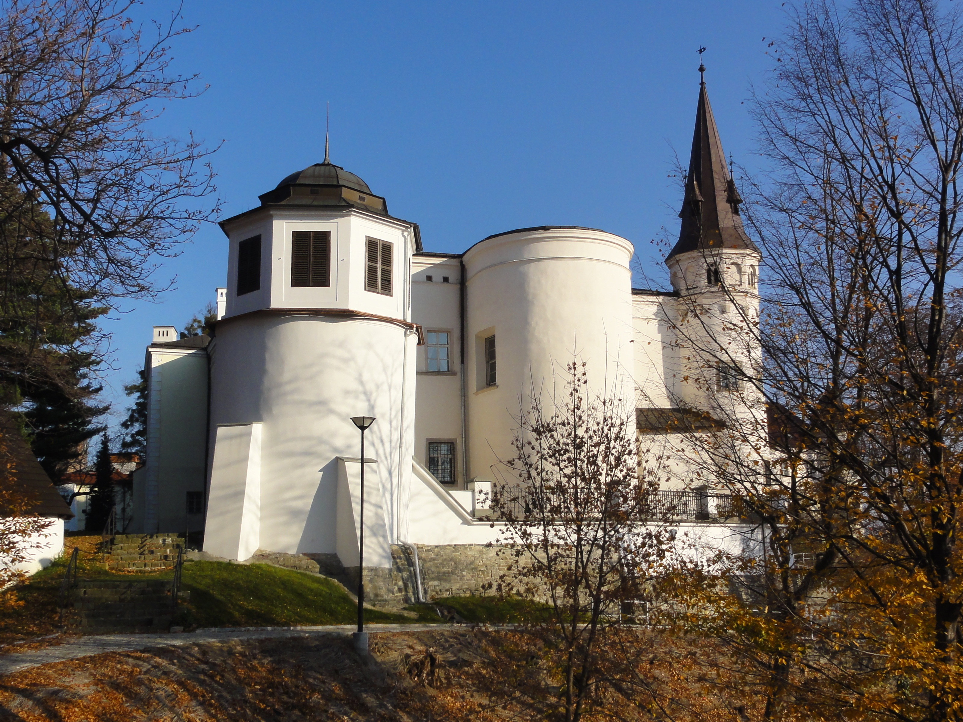 The chateau in Frýdek